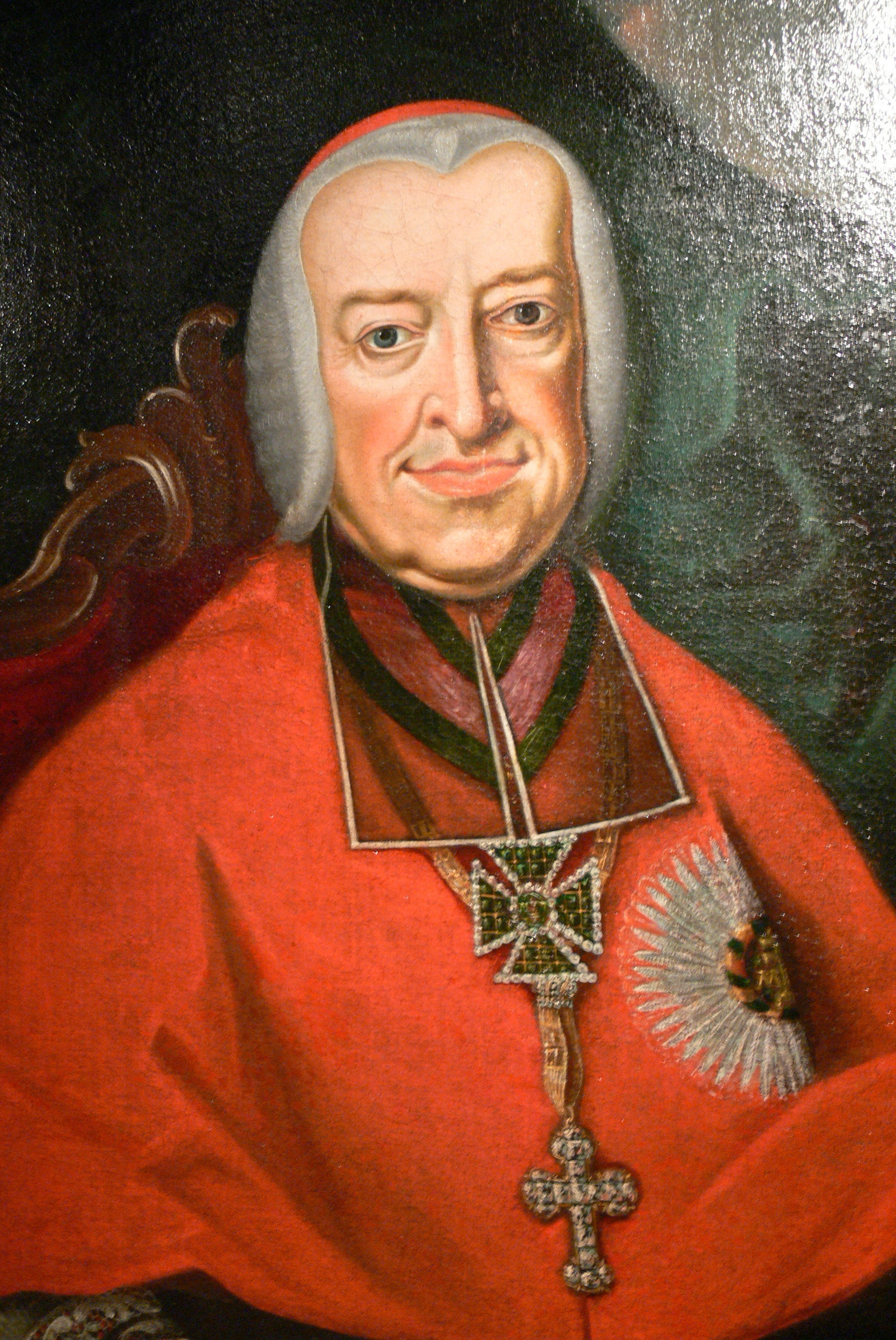 Portrait of Leopold Ernst von Firmian (1708-1783), cardinal bishop of Passau